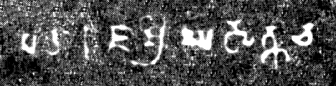 Maharaja Sri Ghatotkacha inscription on the Allahabad pillar Samudragupta inscription